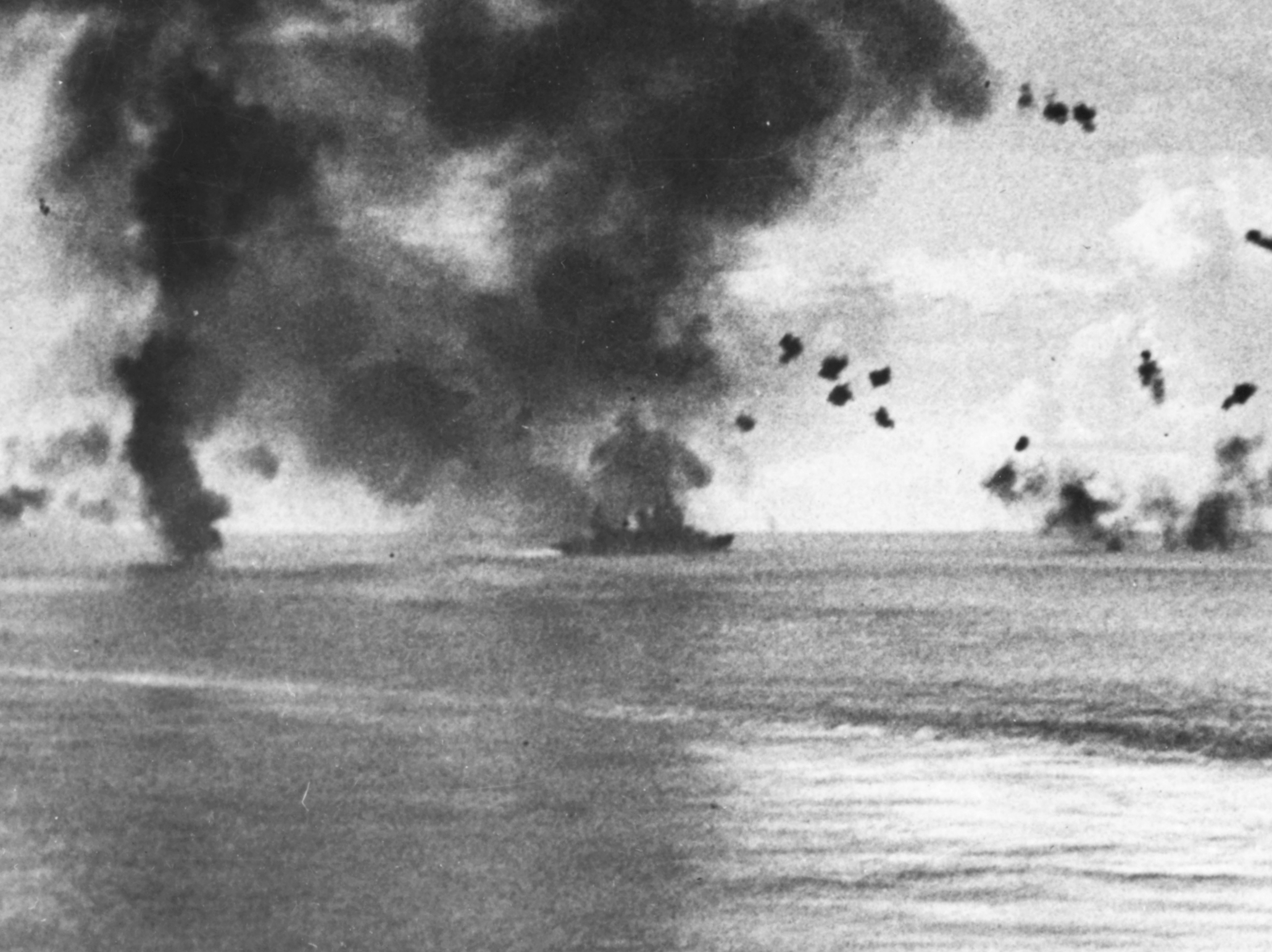 Naval Battle of Guadalcanal, 12-15 November 1942: the U.S. Navy heavy cruiser USS San Francisco (CA-38) maneuvering under Japanese air attack off Guadalcanal, 12 November 1942. At 1416 hrs, an already-damaged Nakajima B5N torpedo bomber dropped its torpedo off San Francisco's starboard quarter. The torpedo passed alongside, but the plane crashed into San Francisco's control aft, swung around that structure, and plunged over the port side into the sea. 15 men were killed, 29 wounded, and one missing. Control aft was demolished. The ship's secondary command post, Battle Two, was burned out but was reestablished by dark. The after anti-aircraft director and radar were put out of commission. Three 20 mm mounts were destroyed.